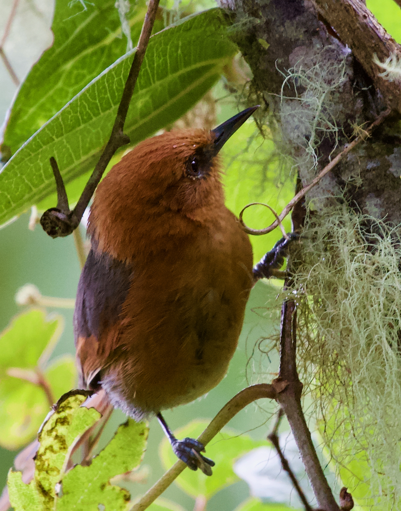 A rusty-headed spinetail (synallaxis fuscorufa) forages in the undergrowth. Santa Marta, Magdalena, Colombia